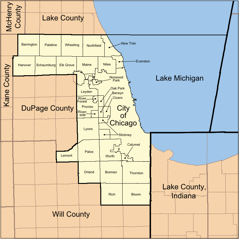 This is a map which shows the borders of Cook County, Illinois and the borders of its townships.